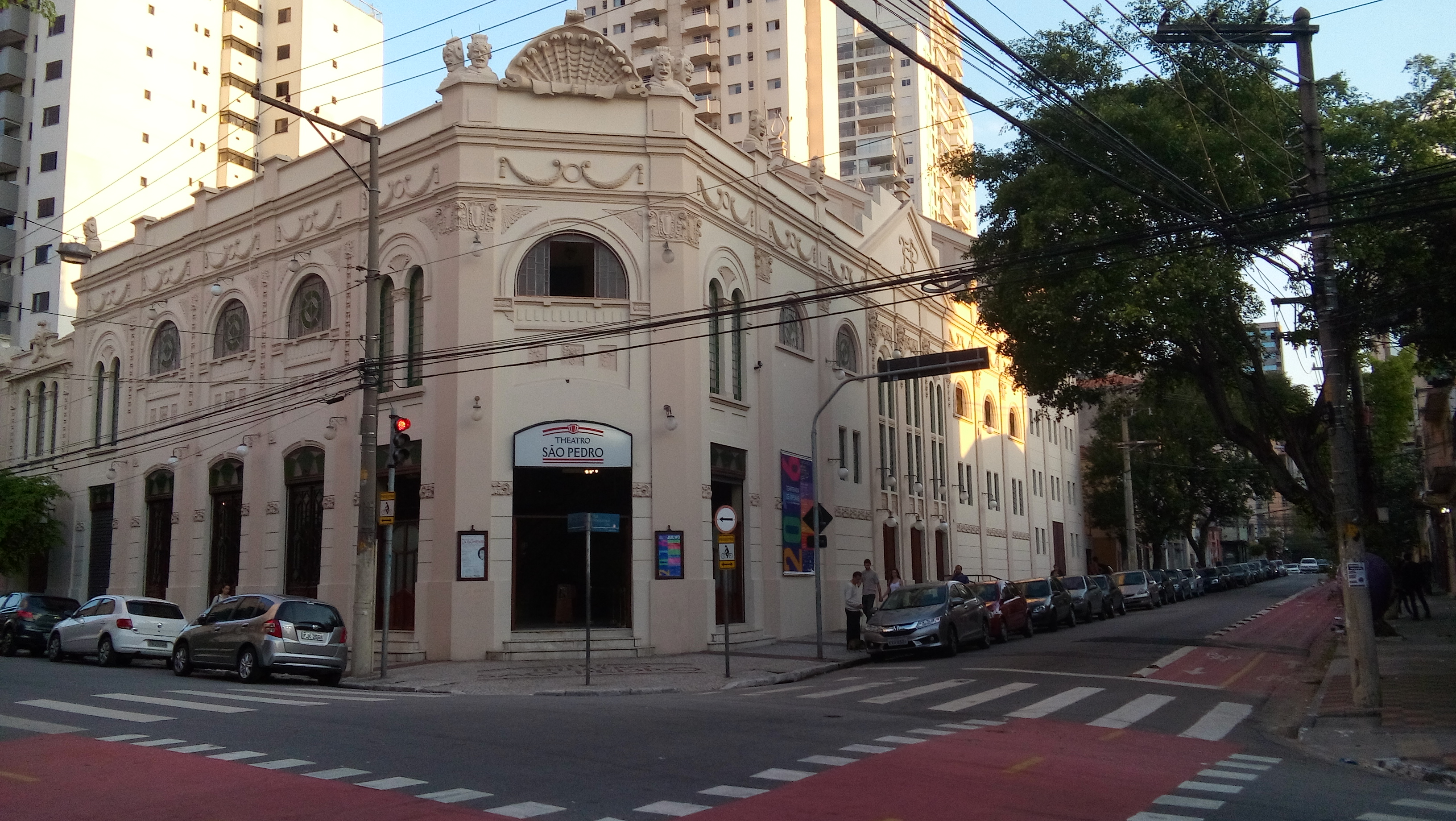 Theatro São Pedro, in São Paulo.